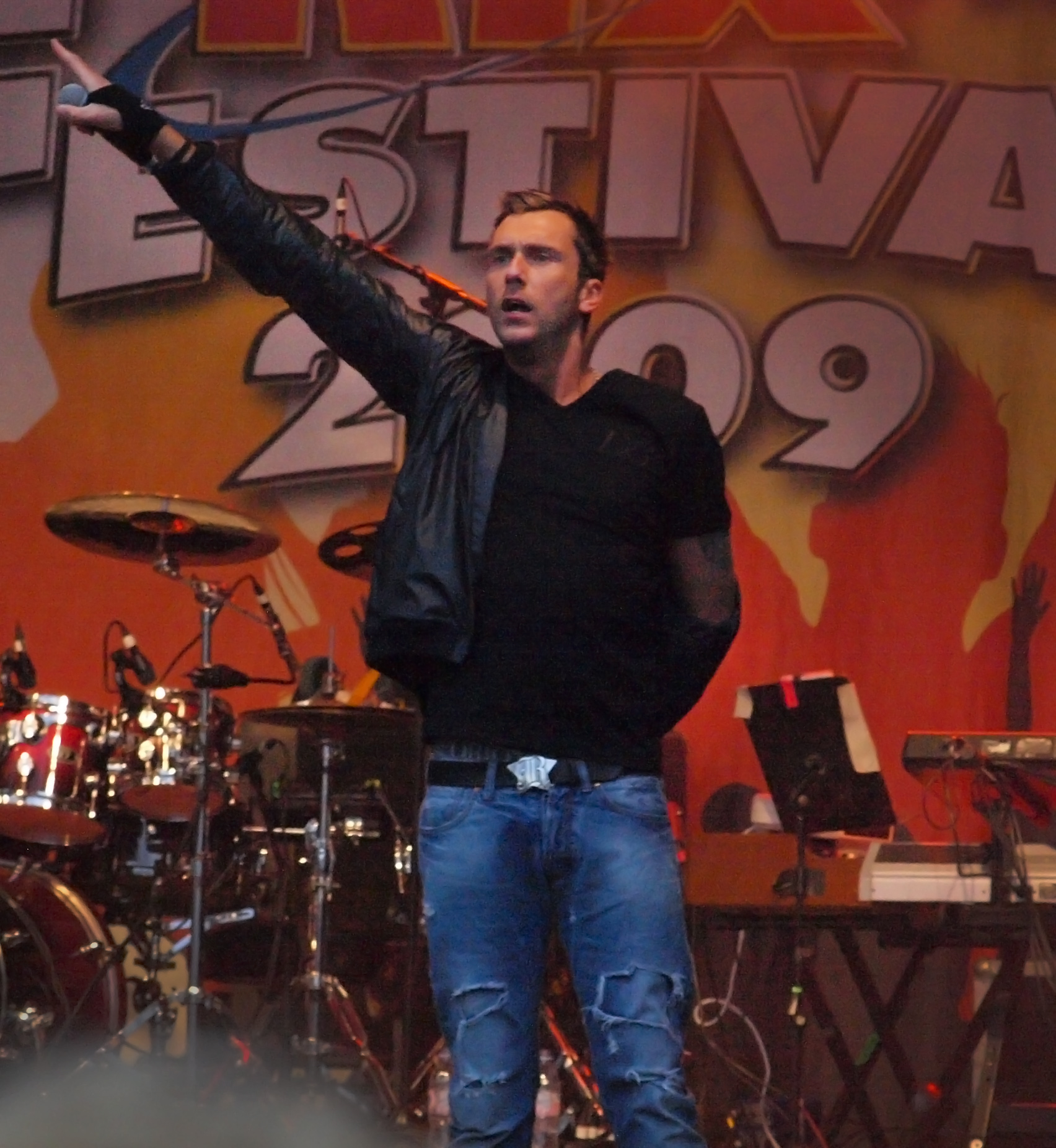 Peter Thelenius, frontman of Swedish eurodance band Basic Element, performing in Falun, Sweden.